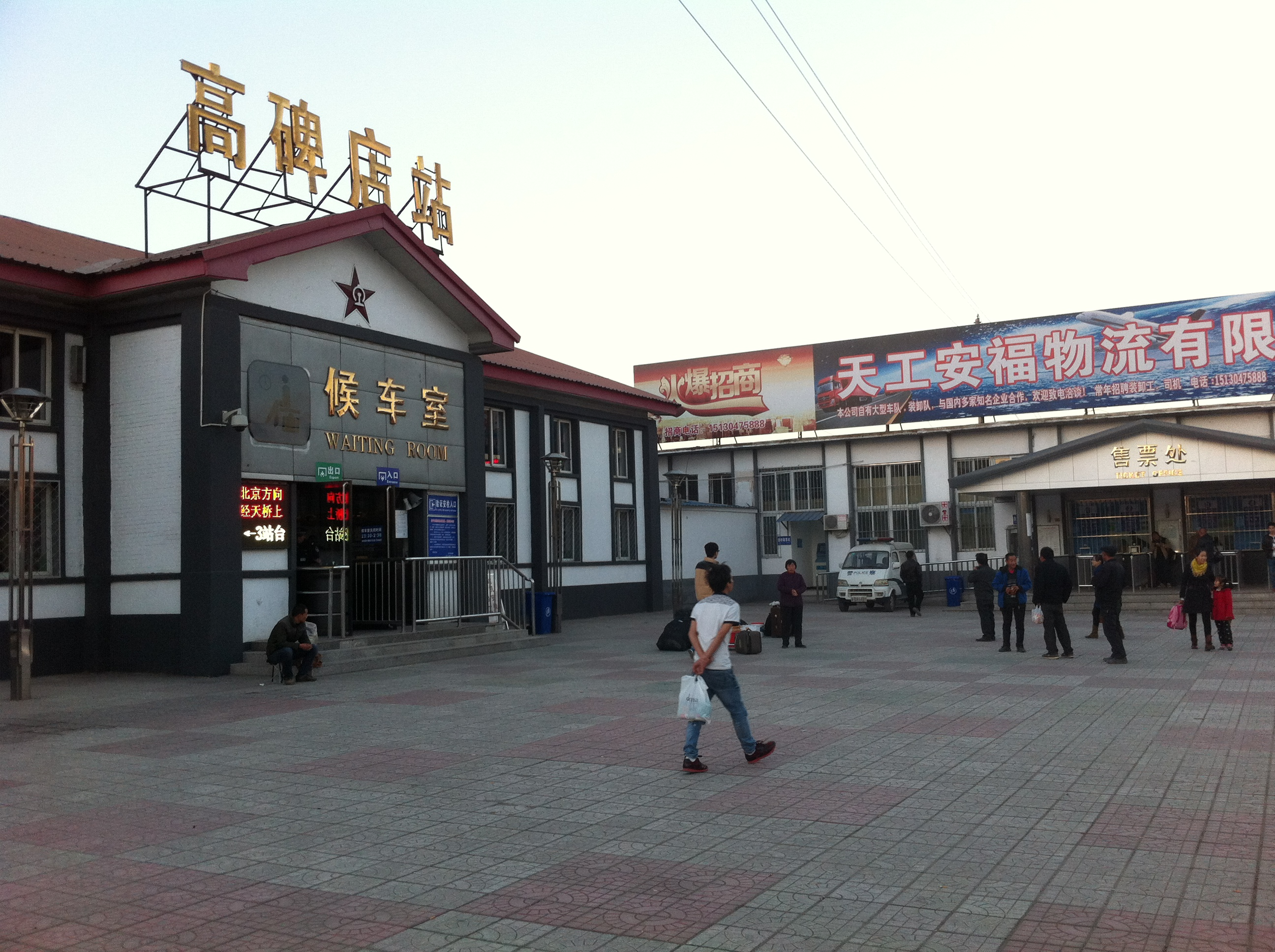 Gaobeidian Station and its ticket office.